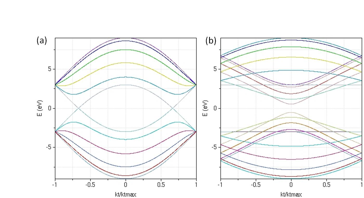 CNT Dispersion Relation